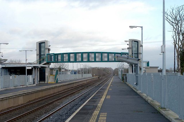 Monastereven Station The original Monastereven station which was closed in 1976. The station was rebuilt on the site of the old station and opened in 2000. This is a view looking towards Kildare and Dublin. The station is located 36 miles from Dublin.